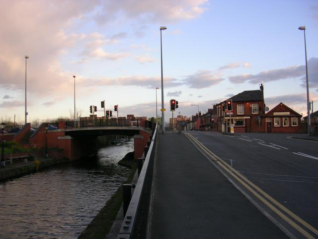 Patricroft Bridge, Eccles. Here the Bridgewater Canal passes under the A57 road, known here as Liverpool Road. The picture was taken looking to the SE. The canal passes through this grid square from the NW to SE.